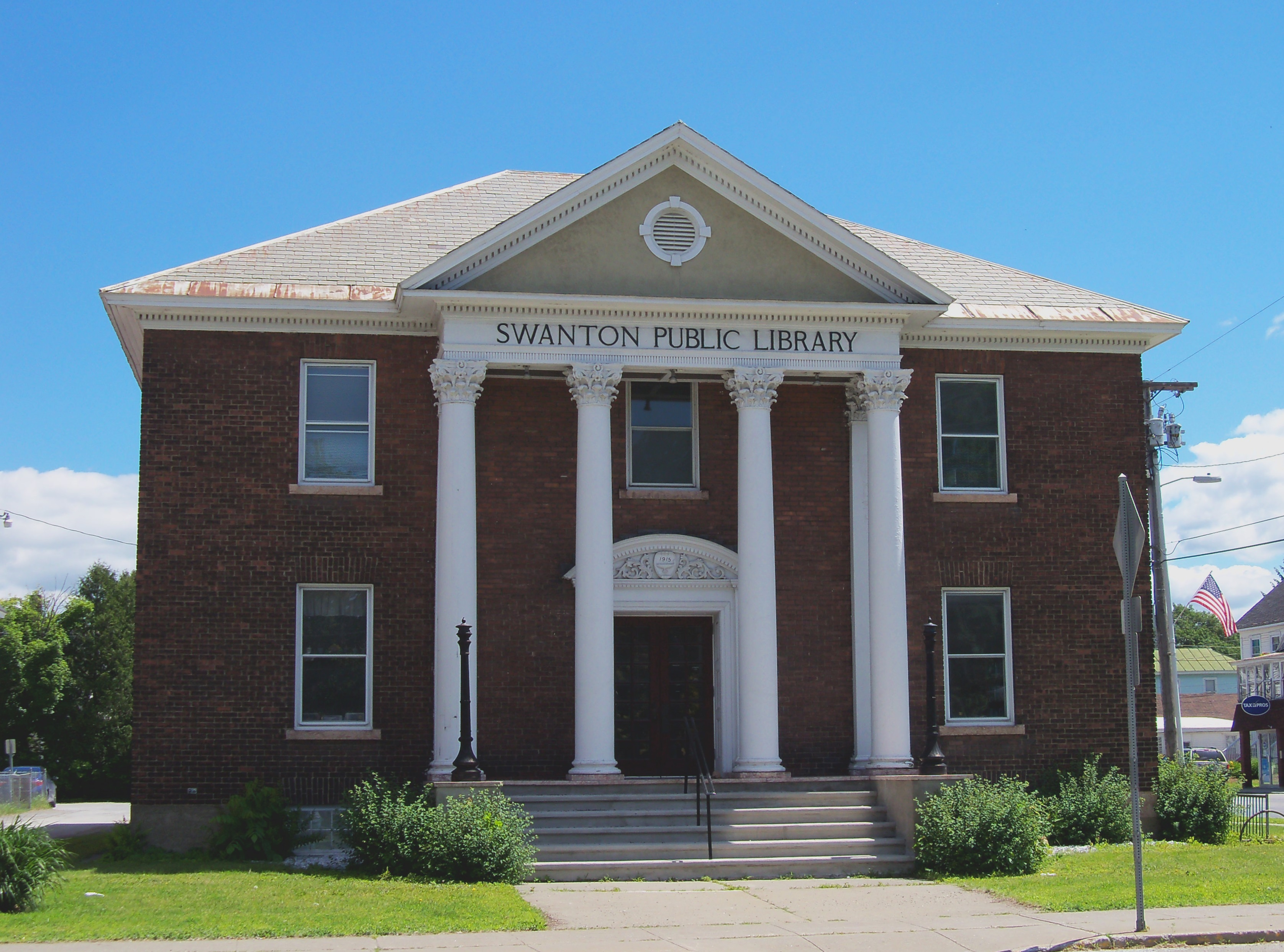 Swanton Public Library in Swanton, Vermont, USA.